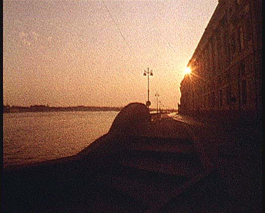 the film "Phantoms of white nights"